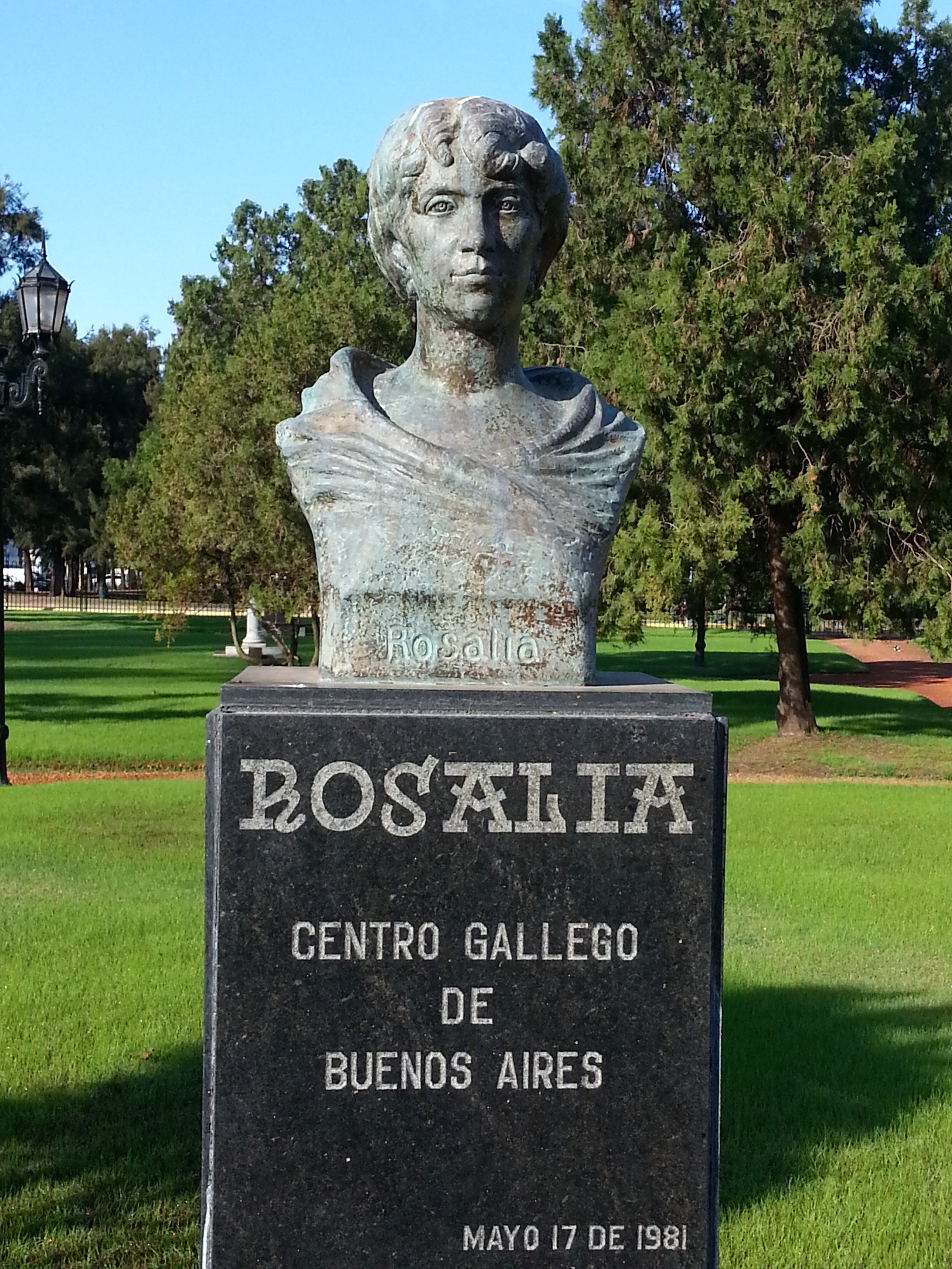 Bust of Rosalía de Castro. Paseo de los Poetas, El Rosedal, Buenos Aires, Argentina.